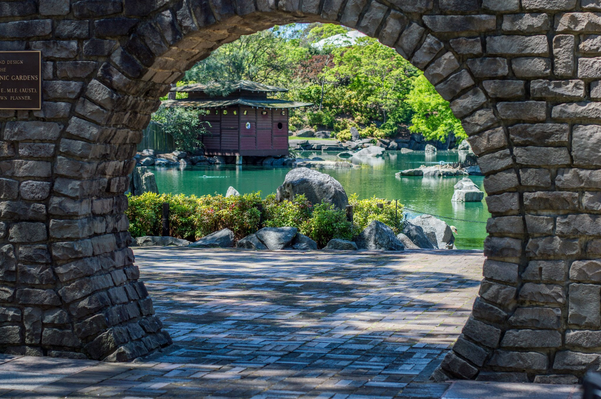 The lake view.